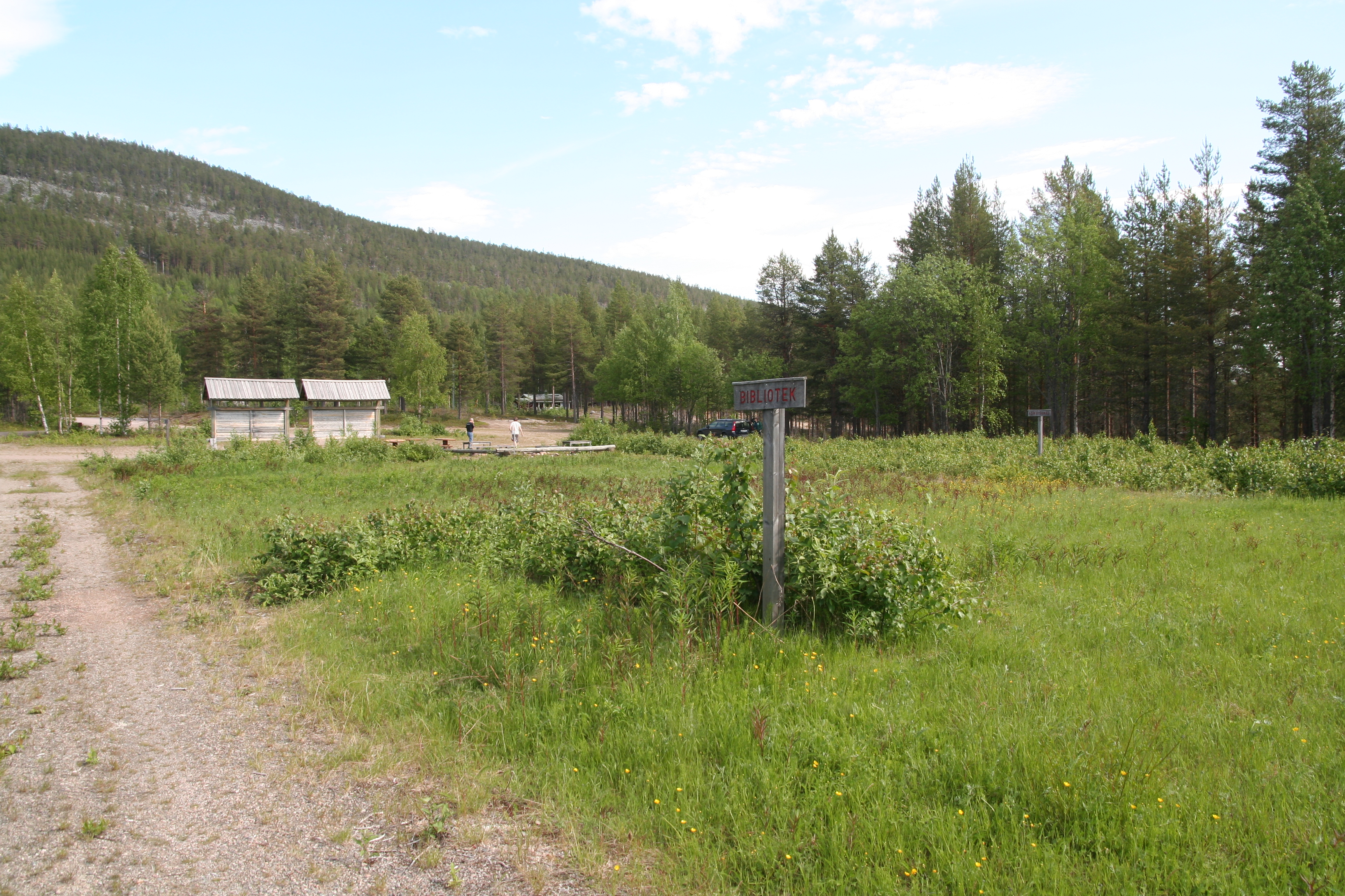 The remainings of the central square in Messaure, now with information boards, fire place and tables. Next to the camera there was a library, on this side of the information boards there was kiosk, and the rightmost sign indicates the location of an administrative building.